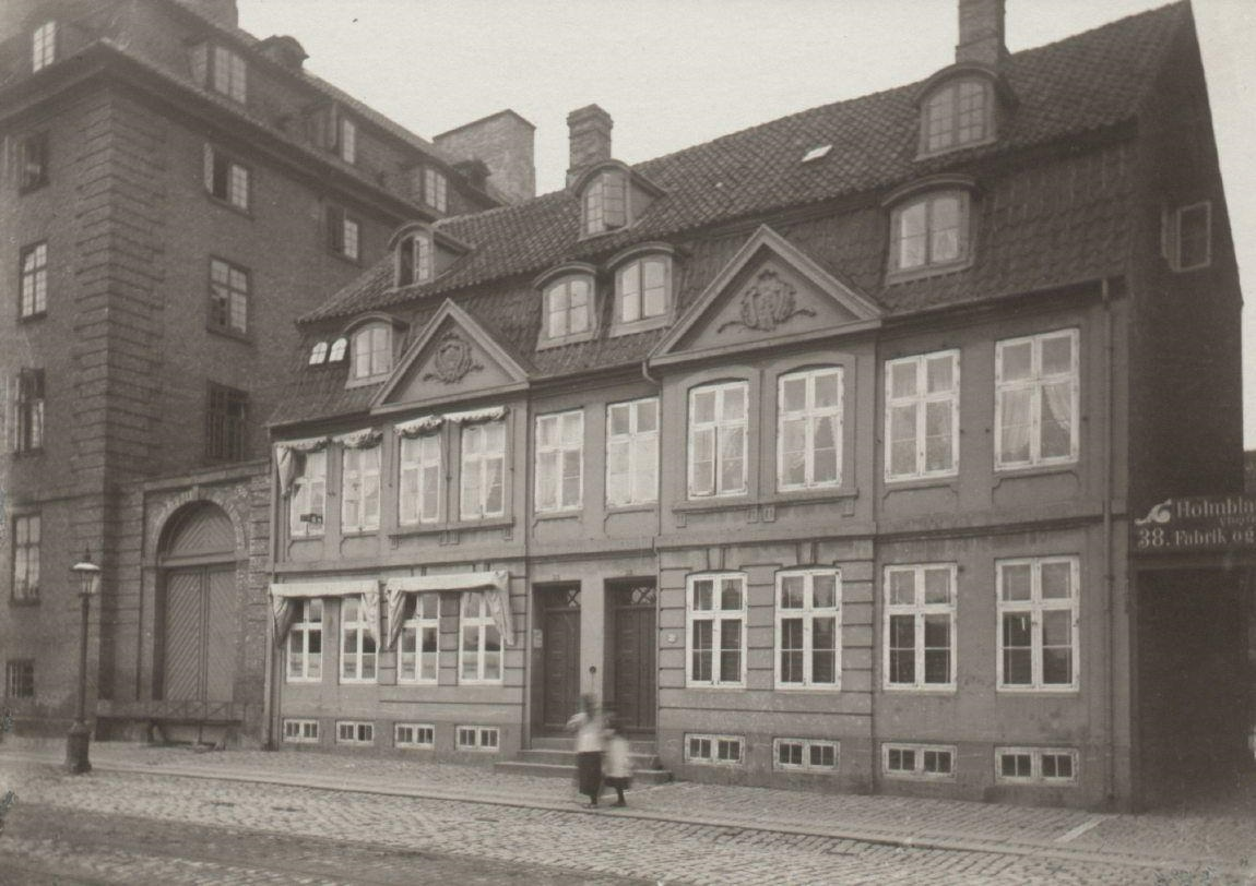 The Holmblad House at Sølvgade 38 in Copenhagen, Denmark